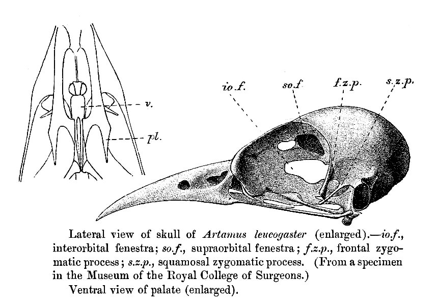 Skull of Artamus leucogaster (= Artamus leucorhynchus)